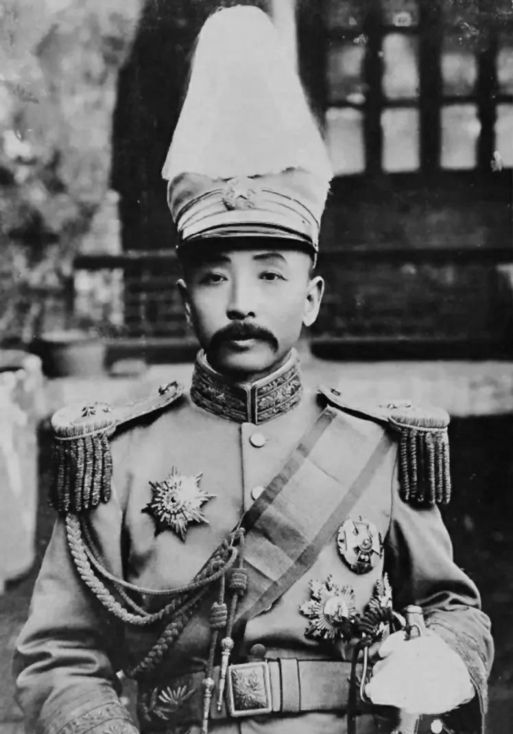 Zhang Zuolin, ruler of Manchuria and Chinese warlord.